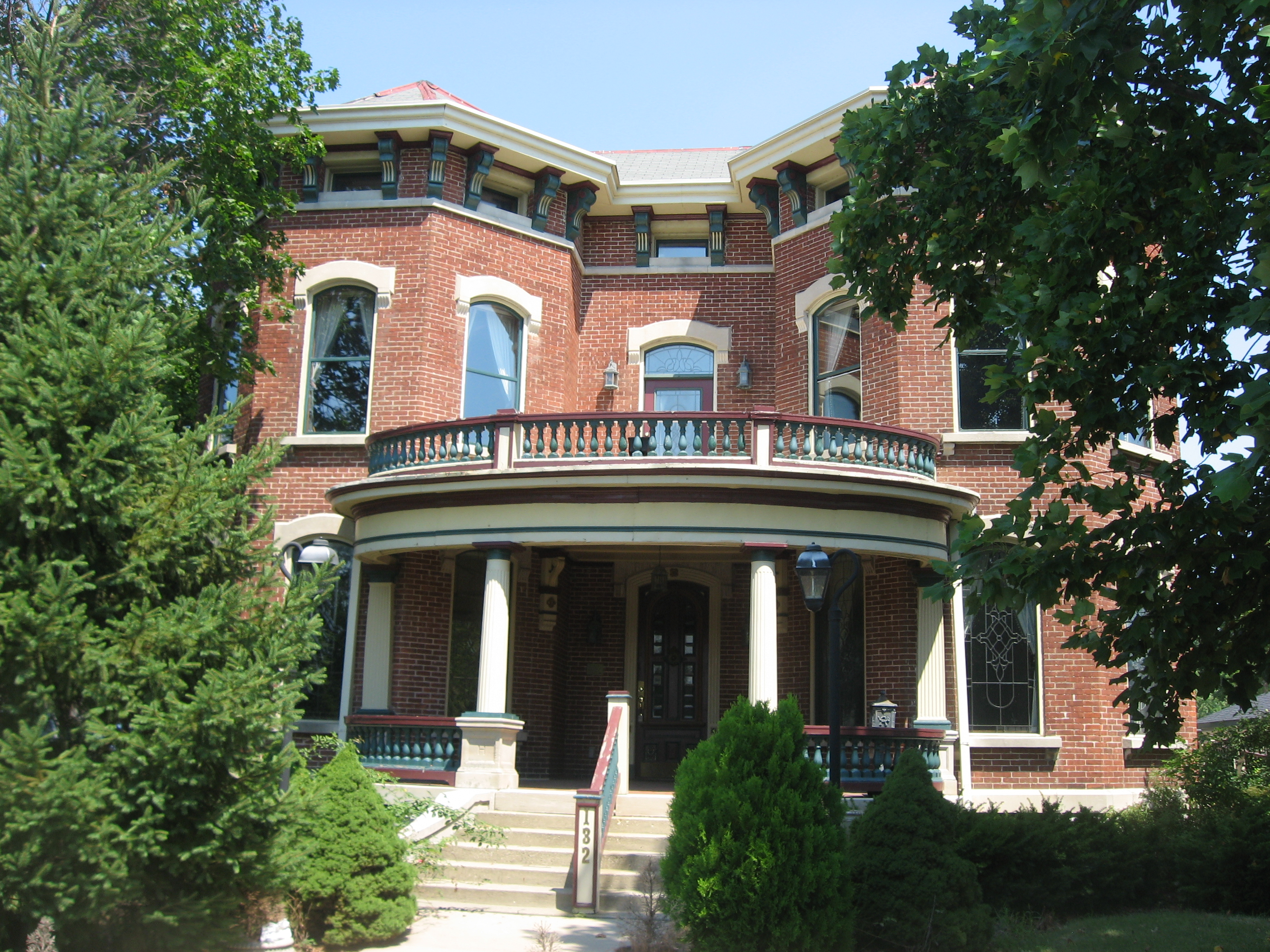 Front of the John Hamilton House, located at 132 W. Washington Street in Shelbyville, Indiana, United States. Built in 1853, it is listed on the National Register of Historic Places, and it is part of a Register-listed historic district, the West Side Historic District.